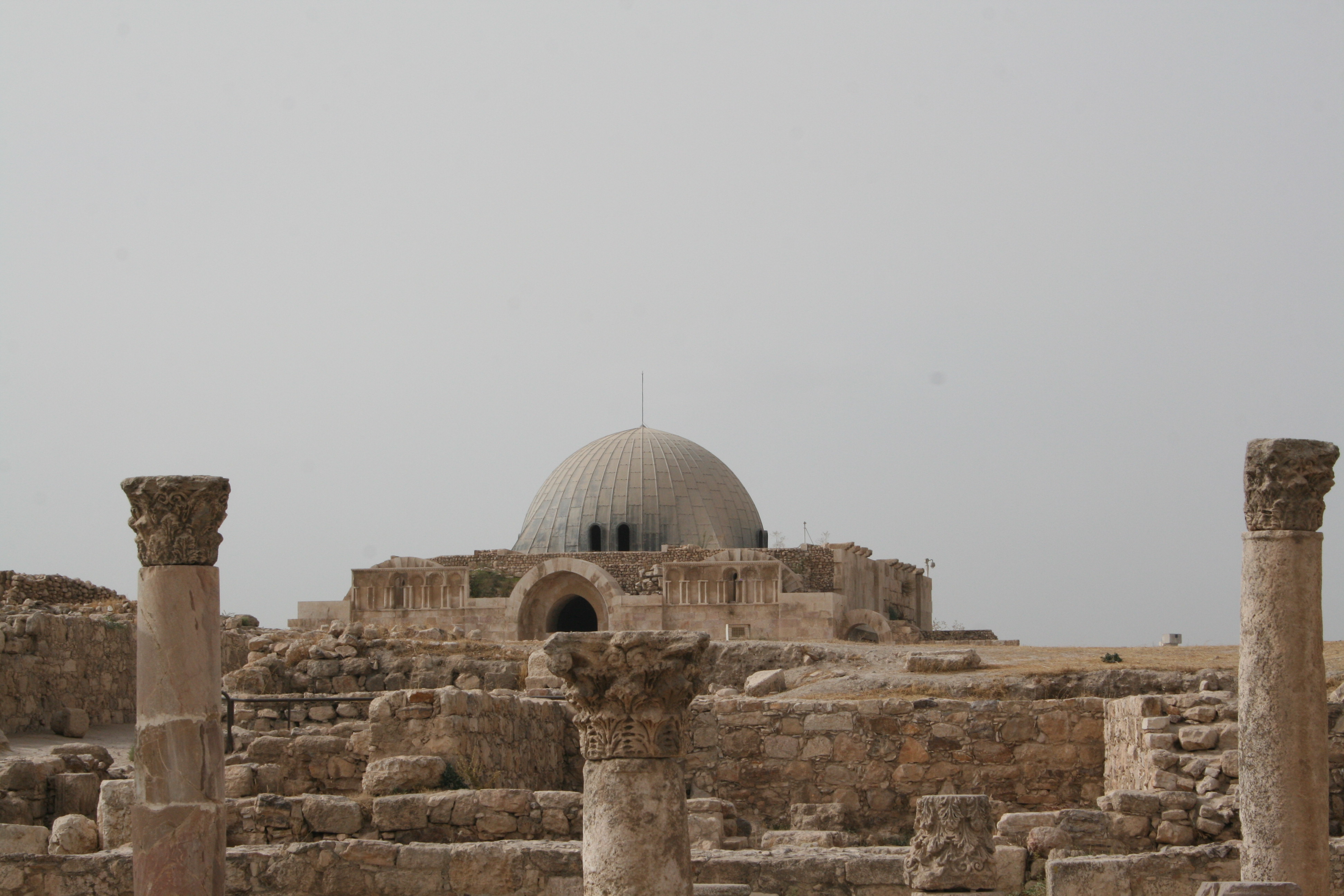 Byzantine Church, Amman Citadel, Jordan